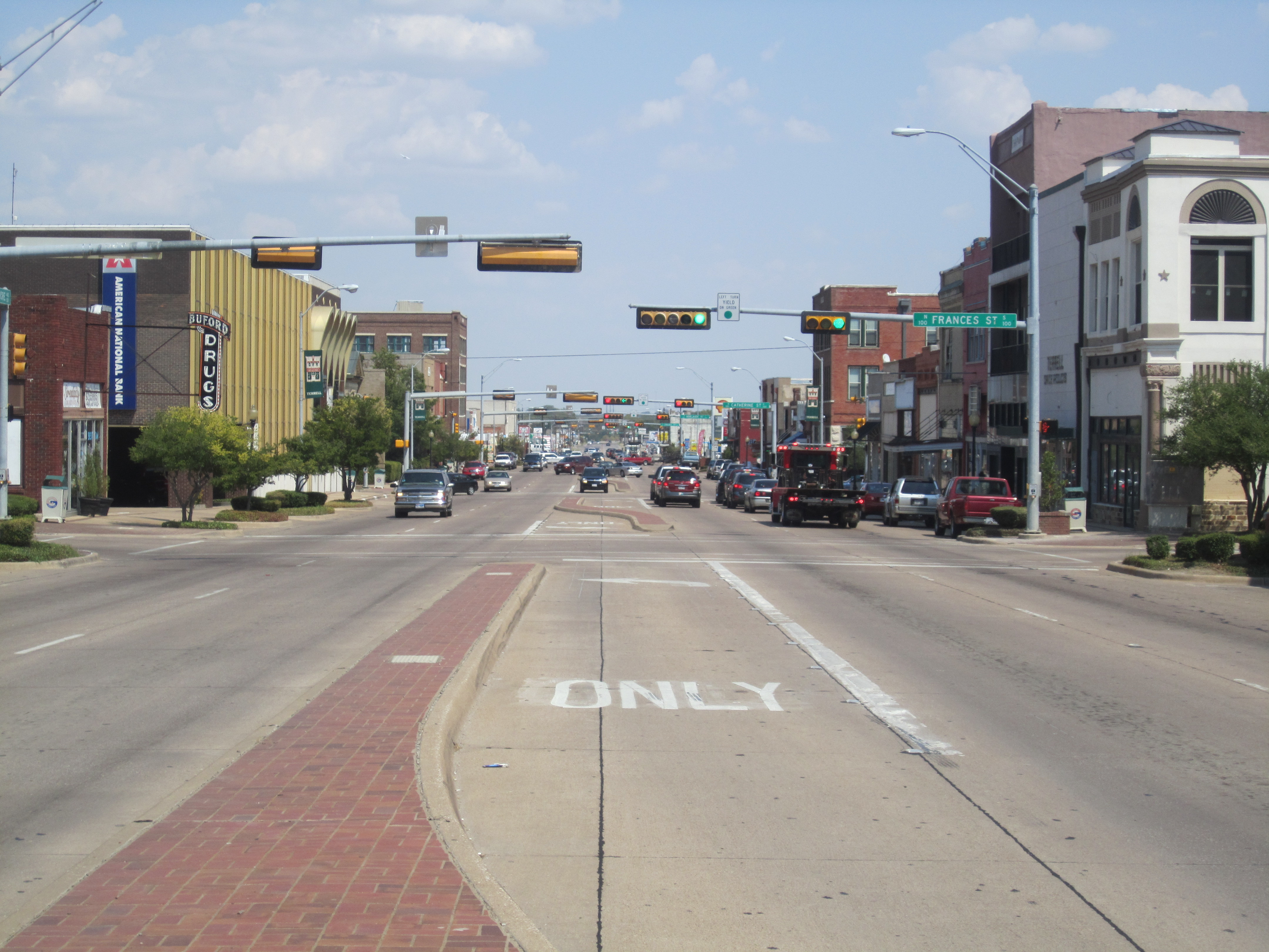 I took photo of U.S. Highway 80 in Terrell, TX, with Canon camera.